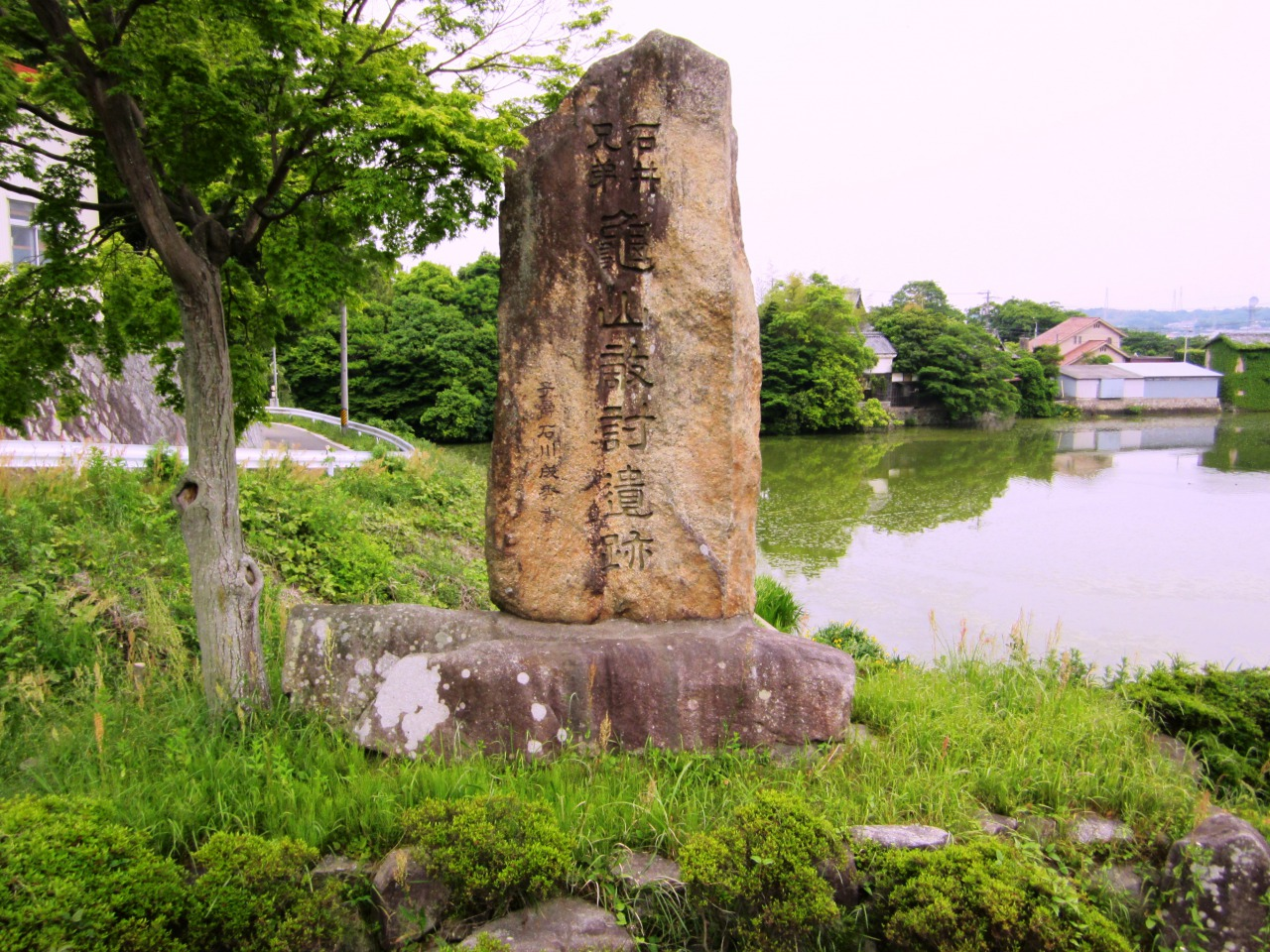 The Monument of Ishii Brothers' revenge in Kameyama, Mie.